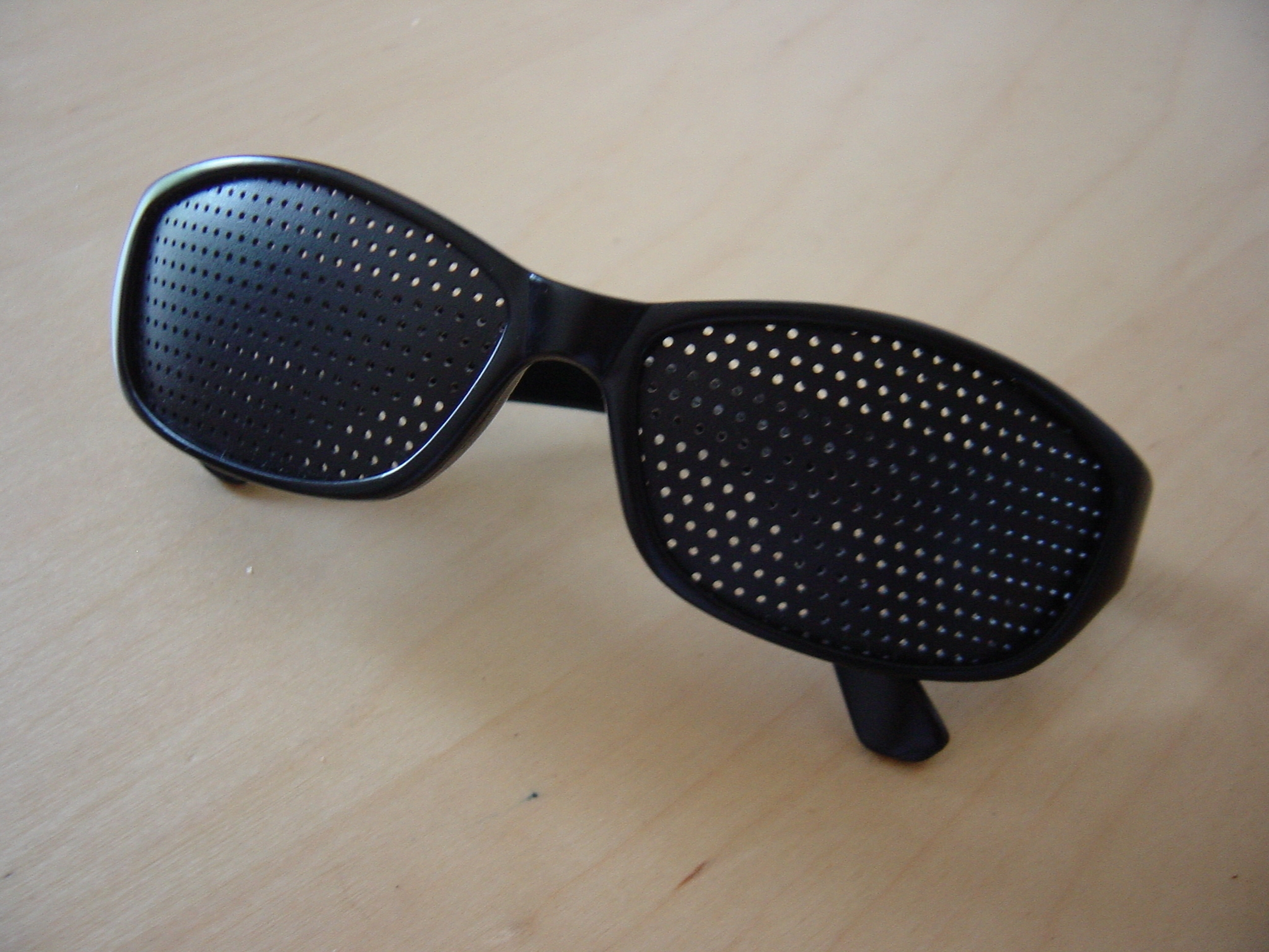 Pinhole glasses, a kind of eyeglasses.